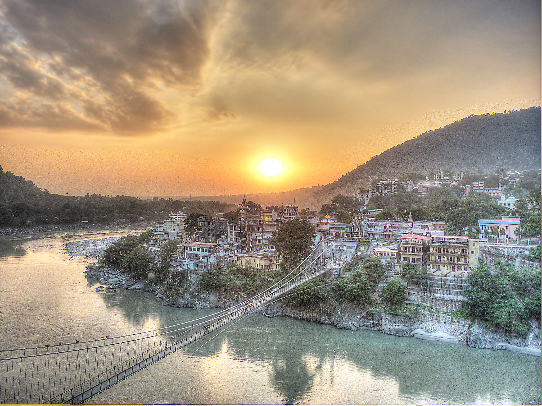 Sunset - Lakshman Jhula